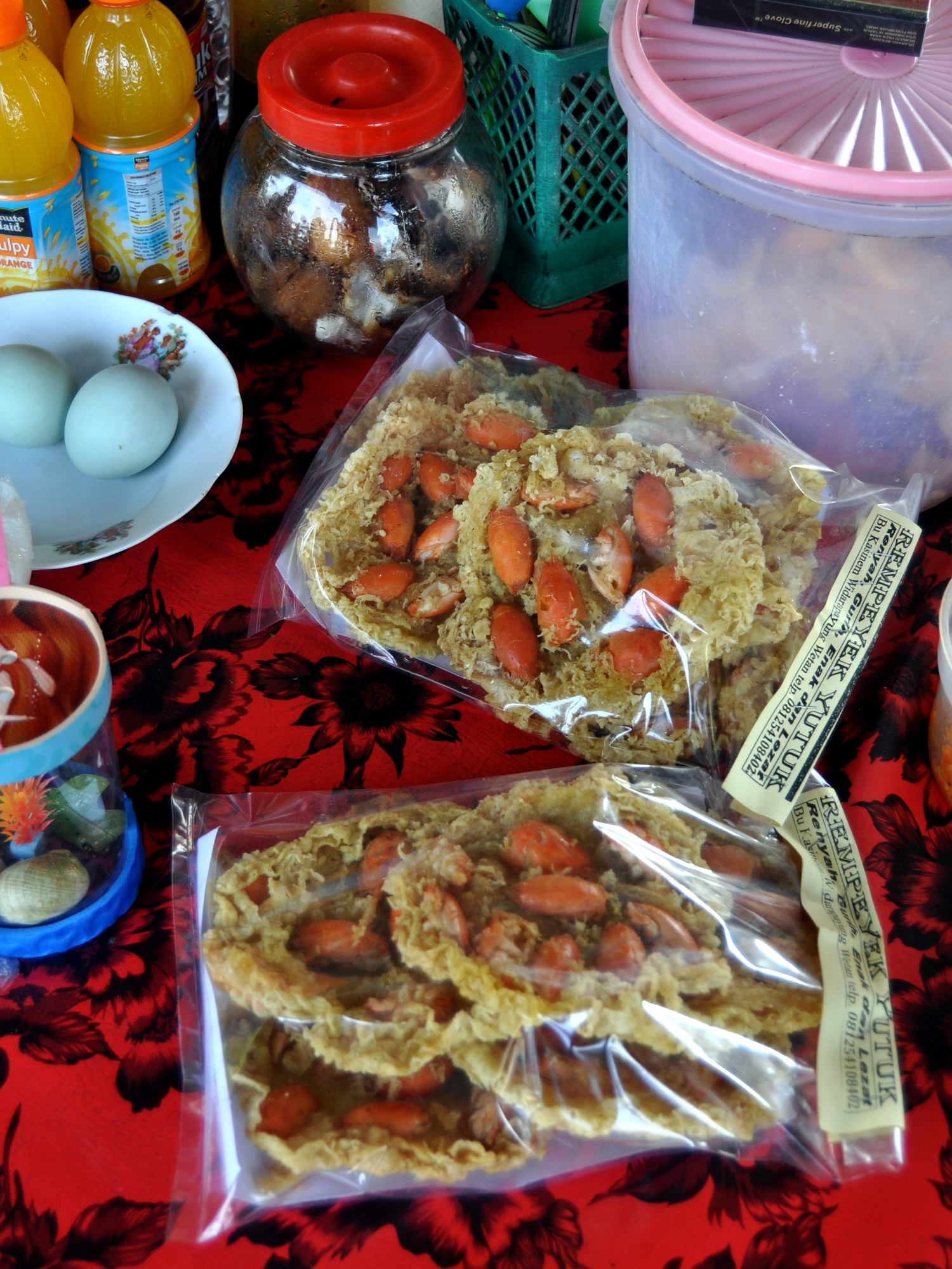 Mole crabs, Hippoidea spp. (mainly Emerita), cooked and sold as delicacy (e.g. rice crackers) in Cilacap southern coast of Central Java, Indonesia.